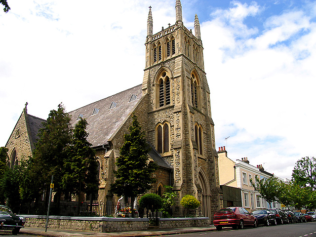 St Andrews Polish RC Church. This church is indicative of the cosmopolitan area in these few square kilometres of London around Chiswick, Turnham Green, Ravenscourt Park etc. It is situated just south west of the centre of the grid square. This picture was taken from the north east of the building.